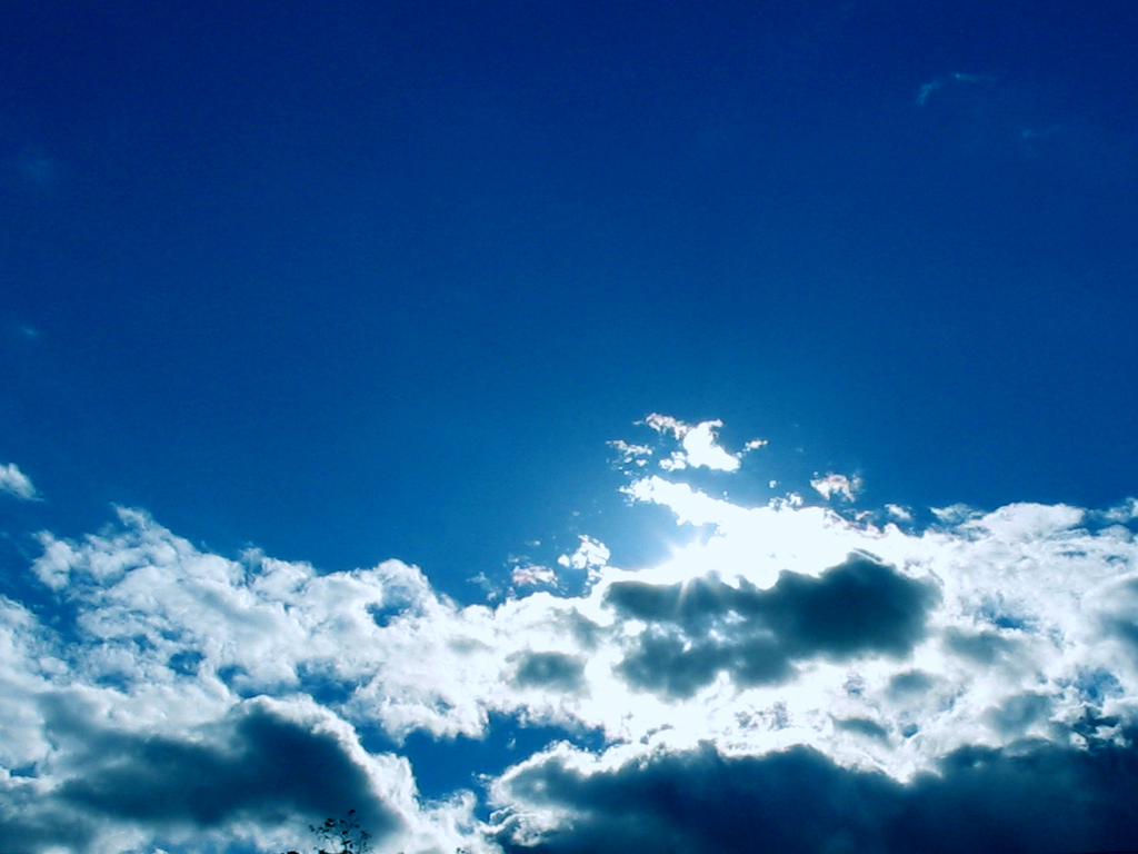 The Morning Sky, in Posadas, Misiones, Argentina